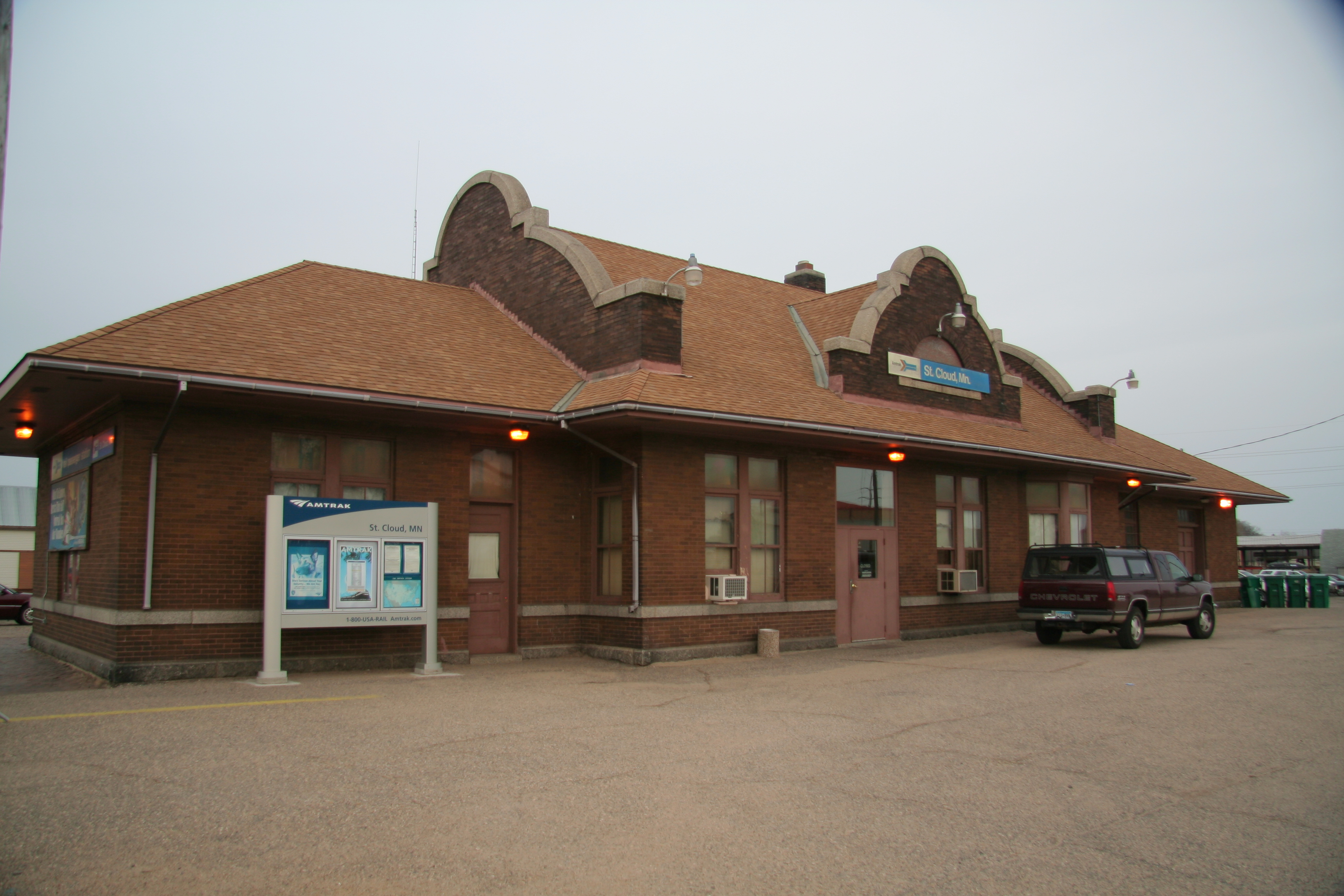 This is the existing Amtrak station in St. Cloud, built in 1898 by Northern Pacific. NP eventually became part of Burlington Northern, and BN became part of BNSF, who still owns it today. Amtrak's Empire Builder stops here once a day in each direction.